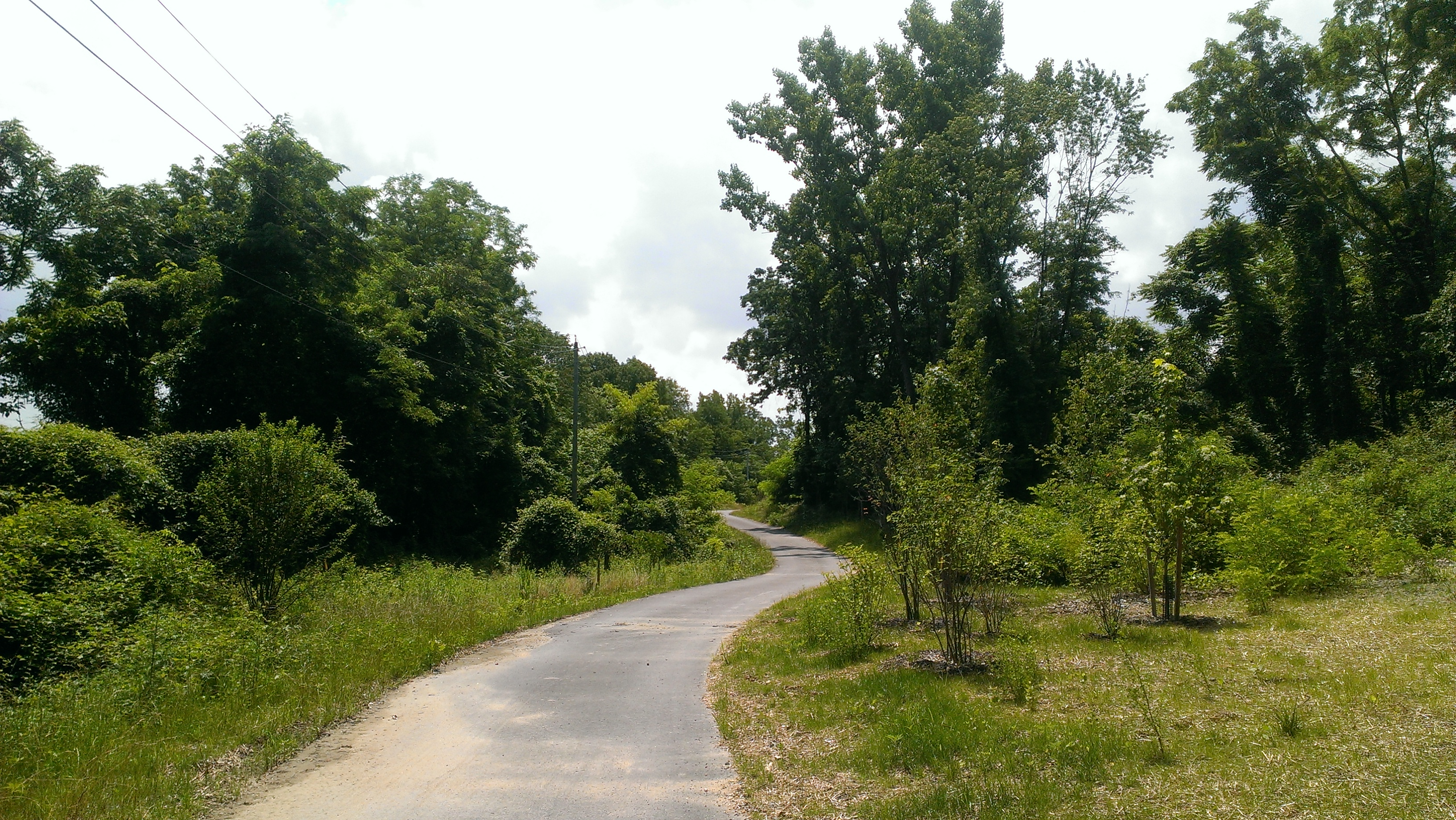 A section of the Jones Falls Trail between Woodberry and Cold Spring Lane. This is part of Phase IV of the trail, opened in early 2013.